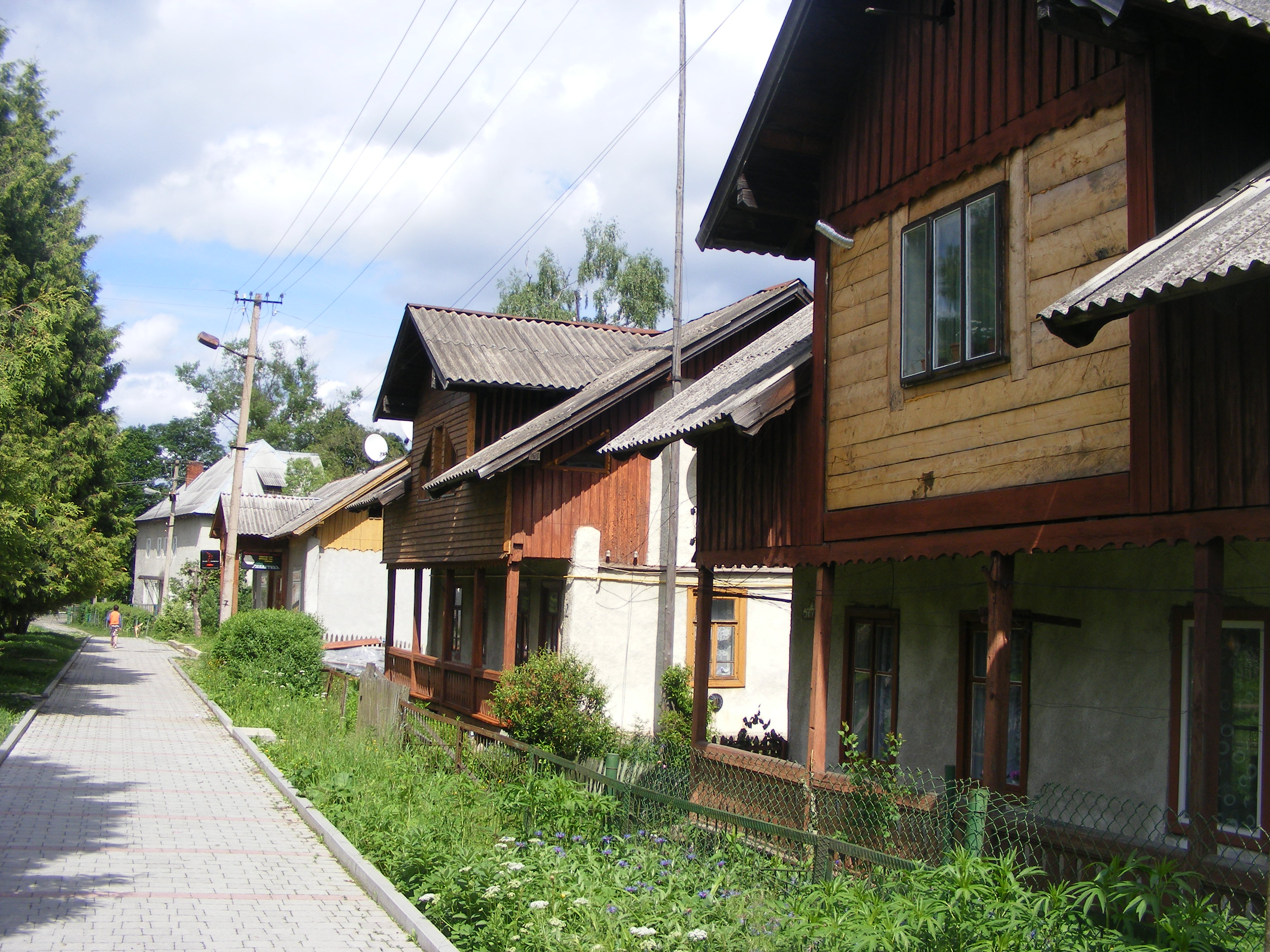 A street in the Ukrainian Ski resort of Slavske. Taken in June.